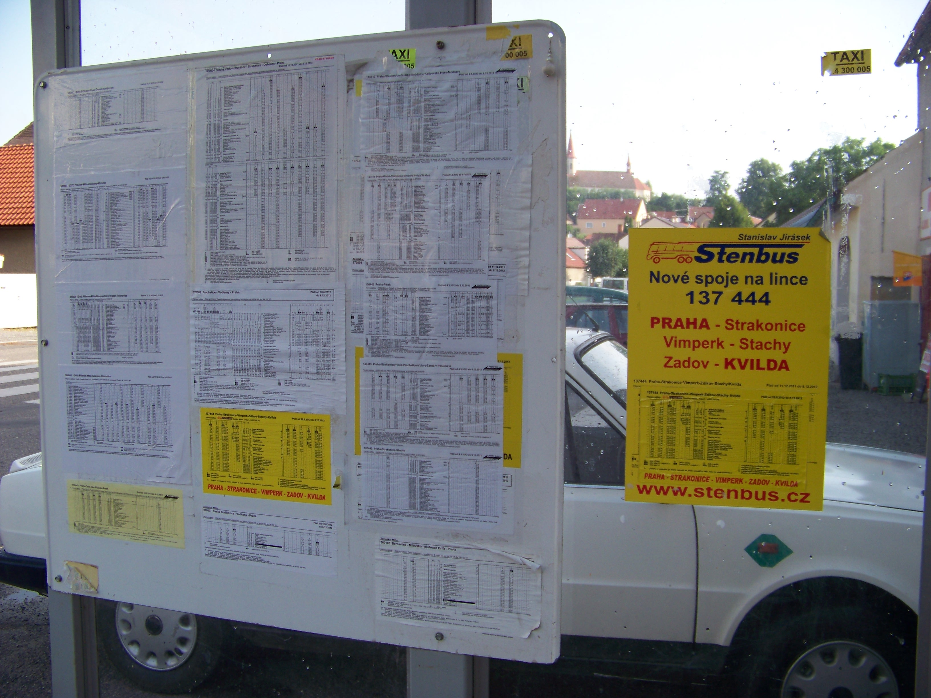 Milín, Příbram District, Central Bohemian Region, the Czech Republic. 11. května street, bus timetables.